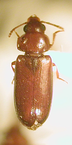 Pharaxonotha esperanzae, mounted paratipe specimen, at MNHNCu, Havana, Cuba. It has a little parasite on posterior apex. Shot with stereo microscope and digital camera, framed and reduced resolution version.